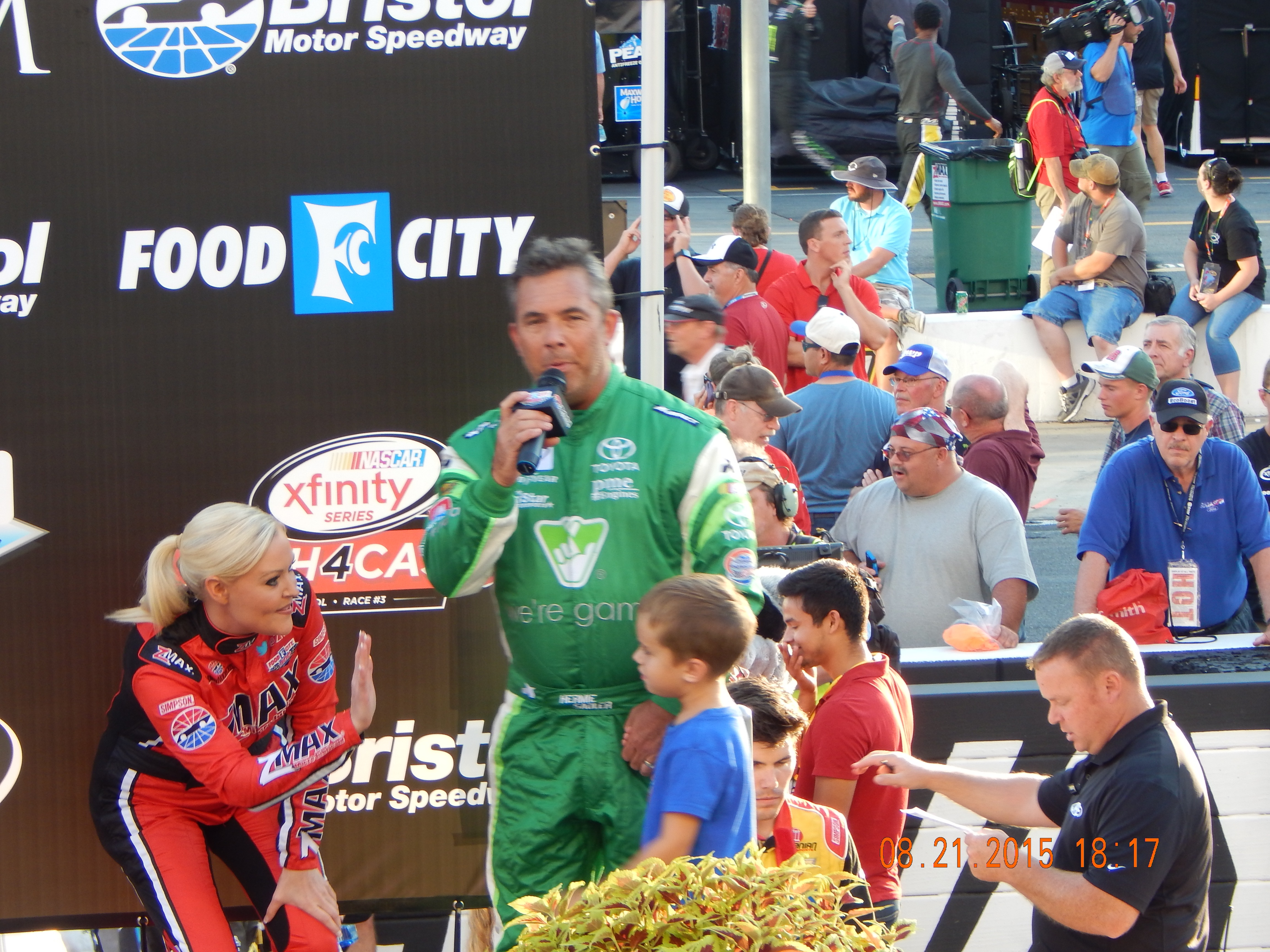 Hermie Sadler being introduced at Bristol Motor Speedway for the 2015 Food City 300.